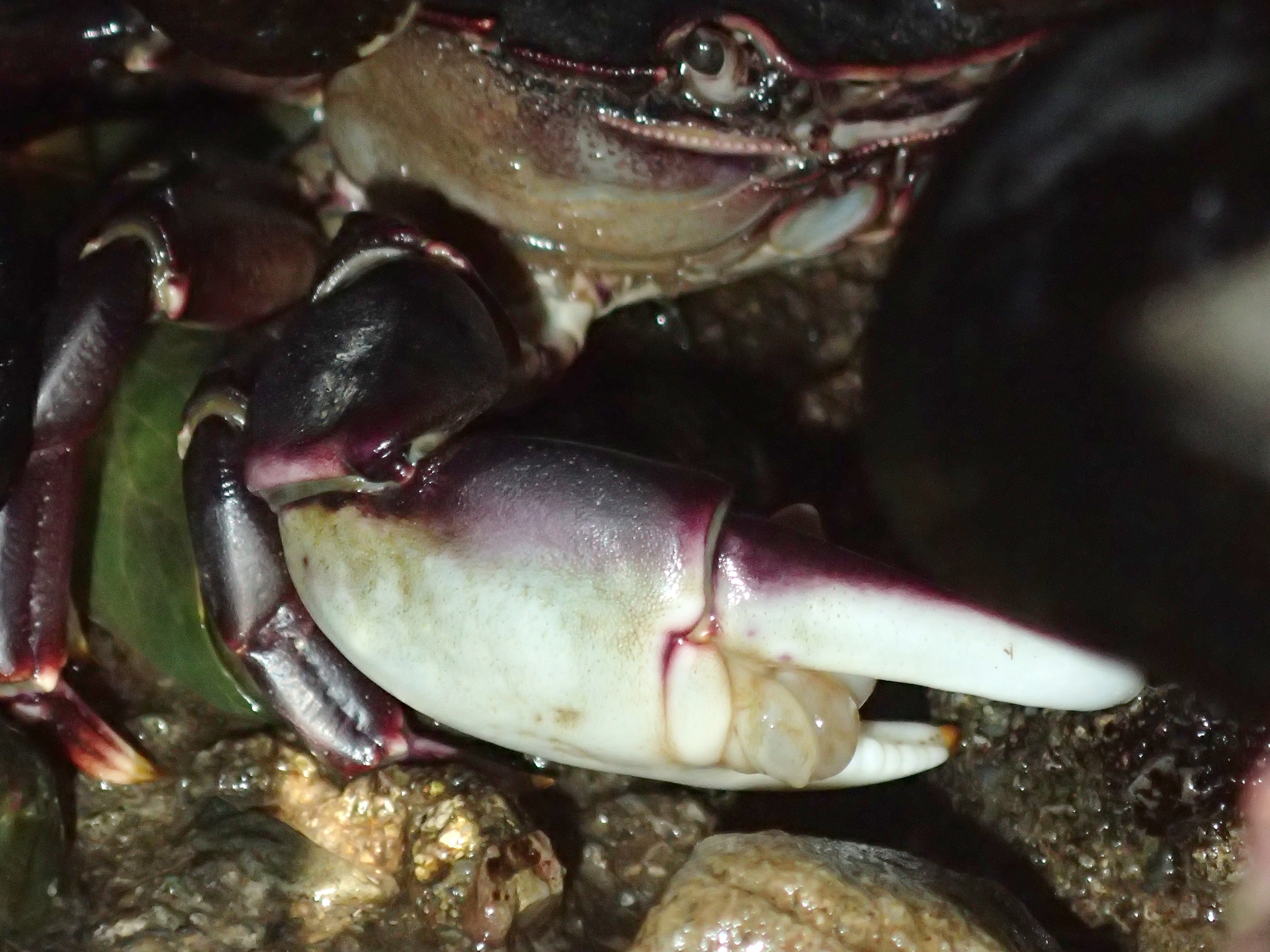 Claw of a male Common Rock Crab showing muscle bulge. Oriental Bay, Wellington, New Zealand.